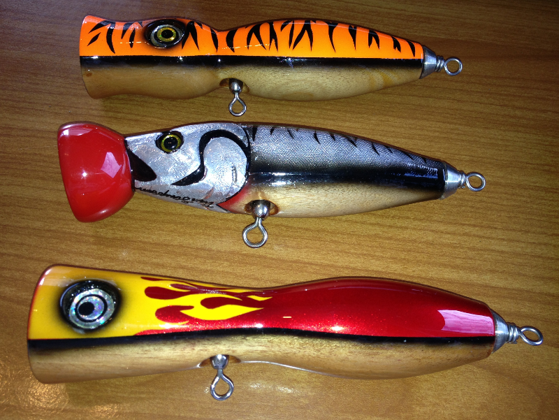 GT Popper Fishing Lures made from Mahogany Wood